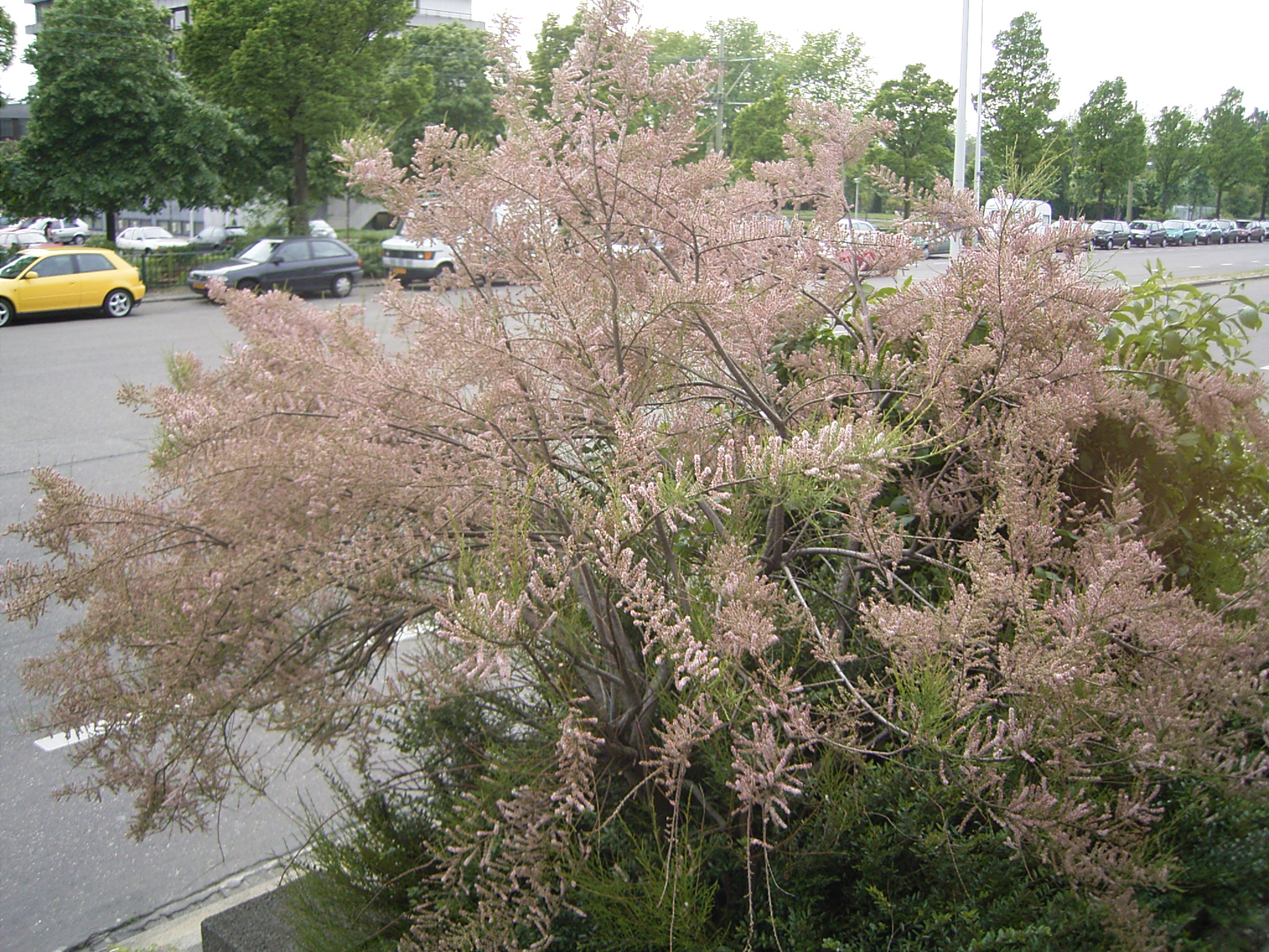 De foto toont de Franse tamarisk. Ik nam deze foto op 25 mei 2005 op de Leyweg in den Haag. This photo shows a Tamarix gallica. I took this picture on May 25, The Hague, Netherlands.